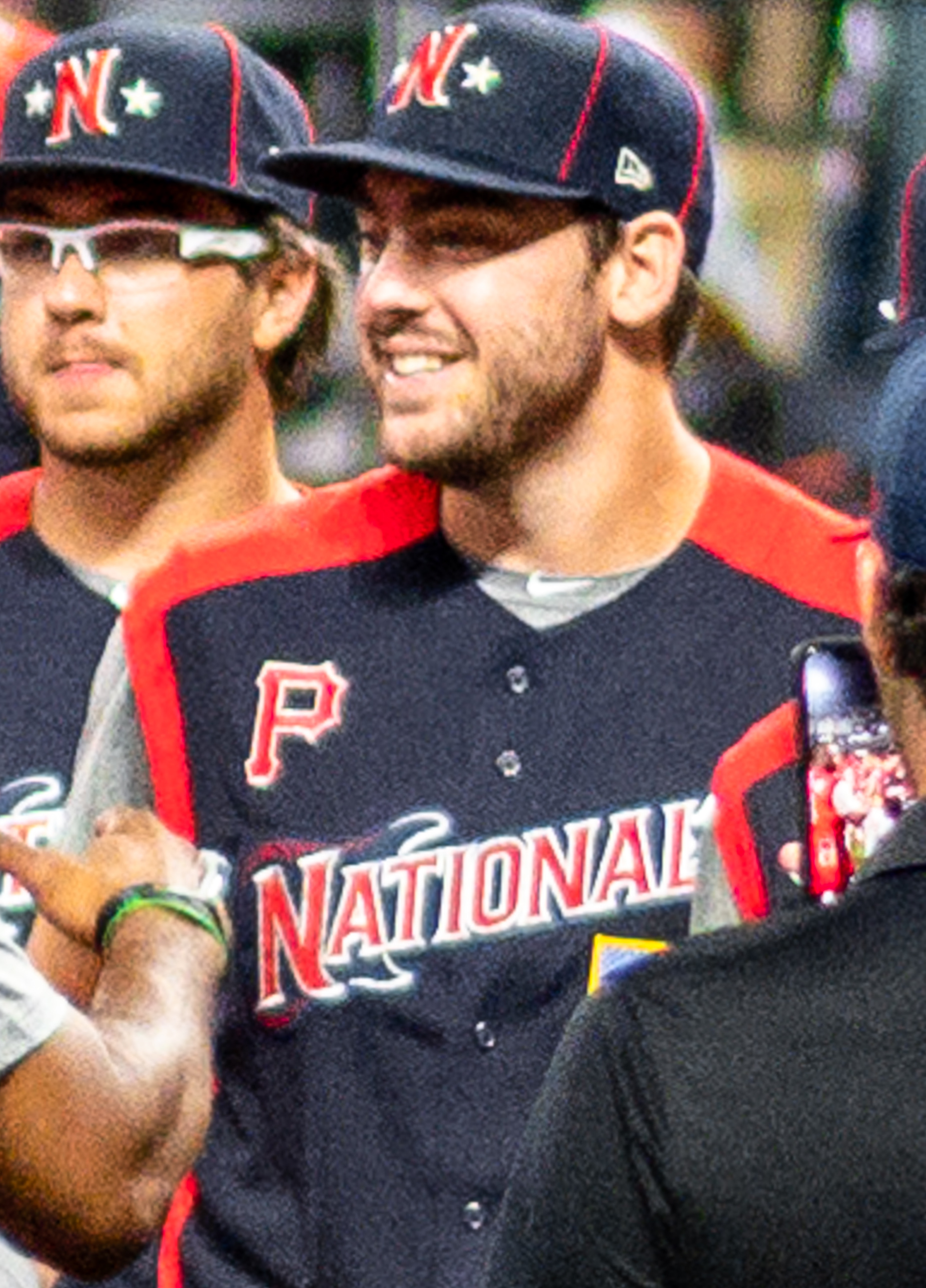 Ever Magallanes, Royce Lewis, Ken Griffey, Jr., Anthony Kay and Will Craig at the 2019 All-Star Futures Game at Progressive Field in Cleveland